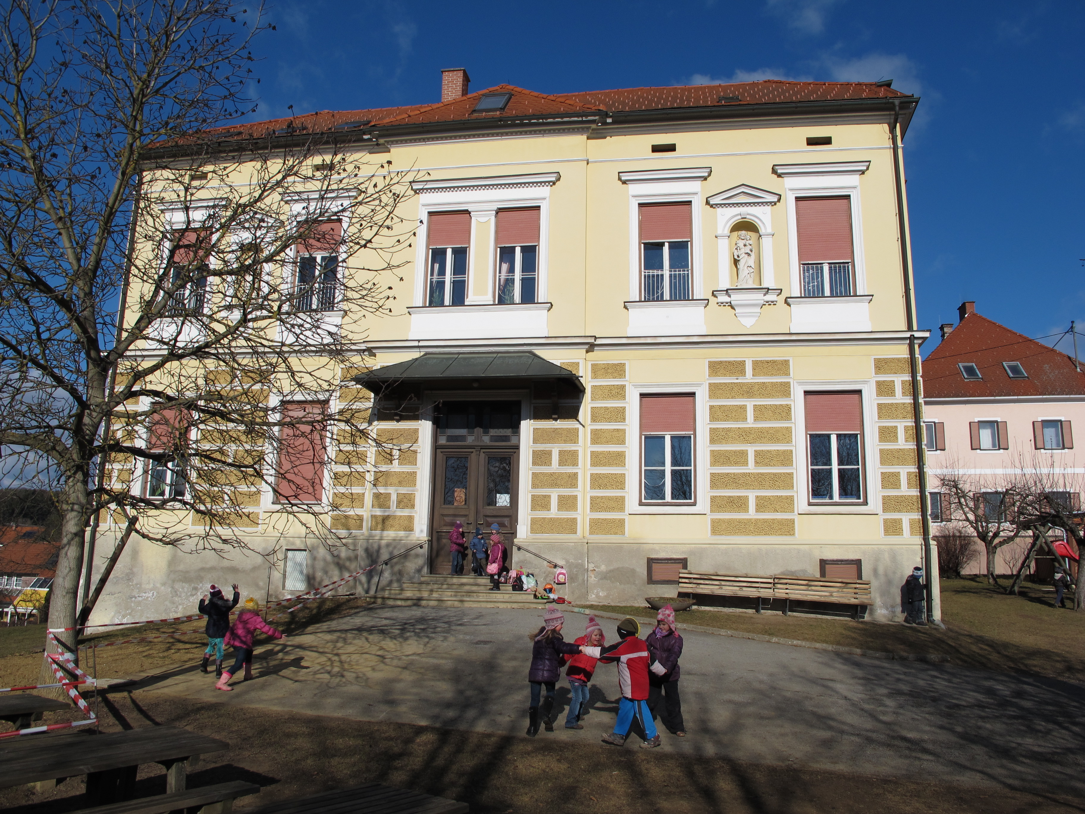 Kloster der Grazer Schulschwestern in Markt Hartmannsdorf